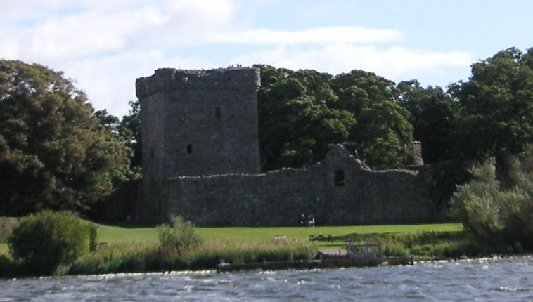 Loch Leven Castle, Perth and Kinross, Scotland.